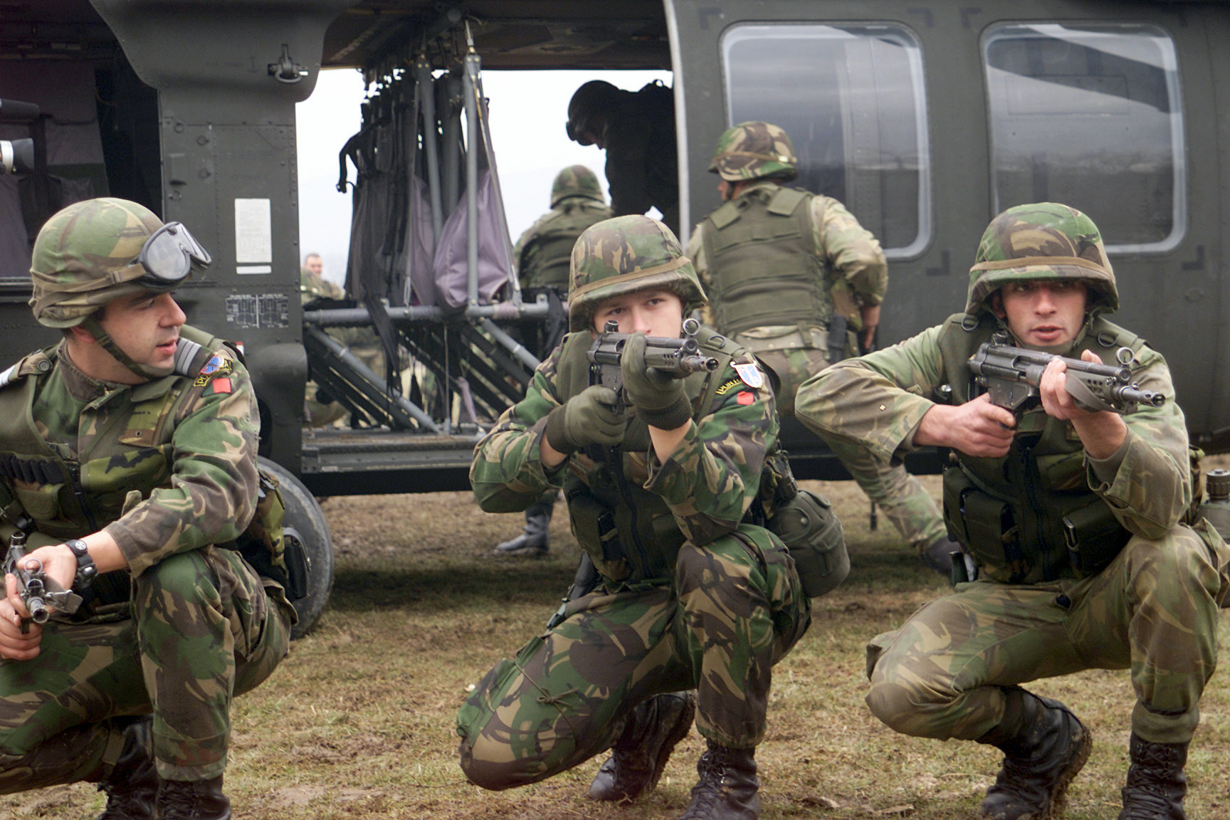 Soldiers from the Portuguese Army, 2nd Mechanical Battalion, Camp Visoko, NATO Stabilization Force, Bosnia-Herzegovina disembark and provide cover fire for a US Army UH-60 Black Hawk. Soldiers participated in Operation RESCUE AIR. This Joint exercise between the United States Army, Bravo Company, 2-224th Aviation Battalion, Task Force Pegasus, Comanche Base, Tuzla, Bosnia-Herzegovina and the Portuguese Army is designed to familiarize soldiers with the Black Hawk and other aircraft they may use during combat.